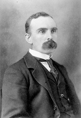 John Walter Gregory, Fellow of the Royal Geographic Society: geologist, geographer and explorer. He conducted the first scientific expedition to Mount Kenya. From 1900-1904 he was Professor of Geology and Mineralogy at the University of Melbourn.